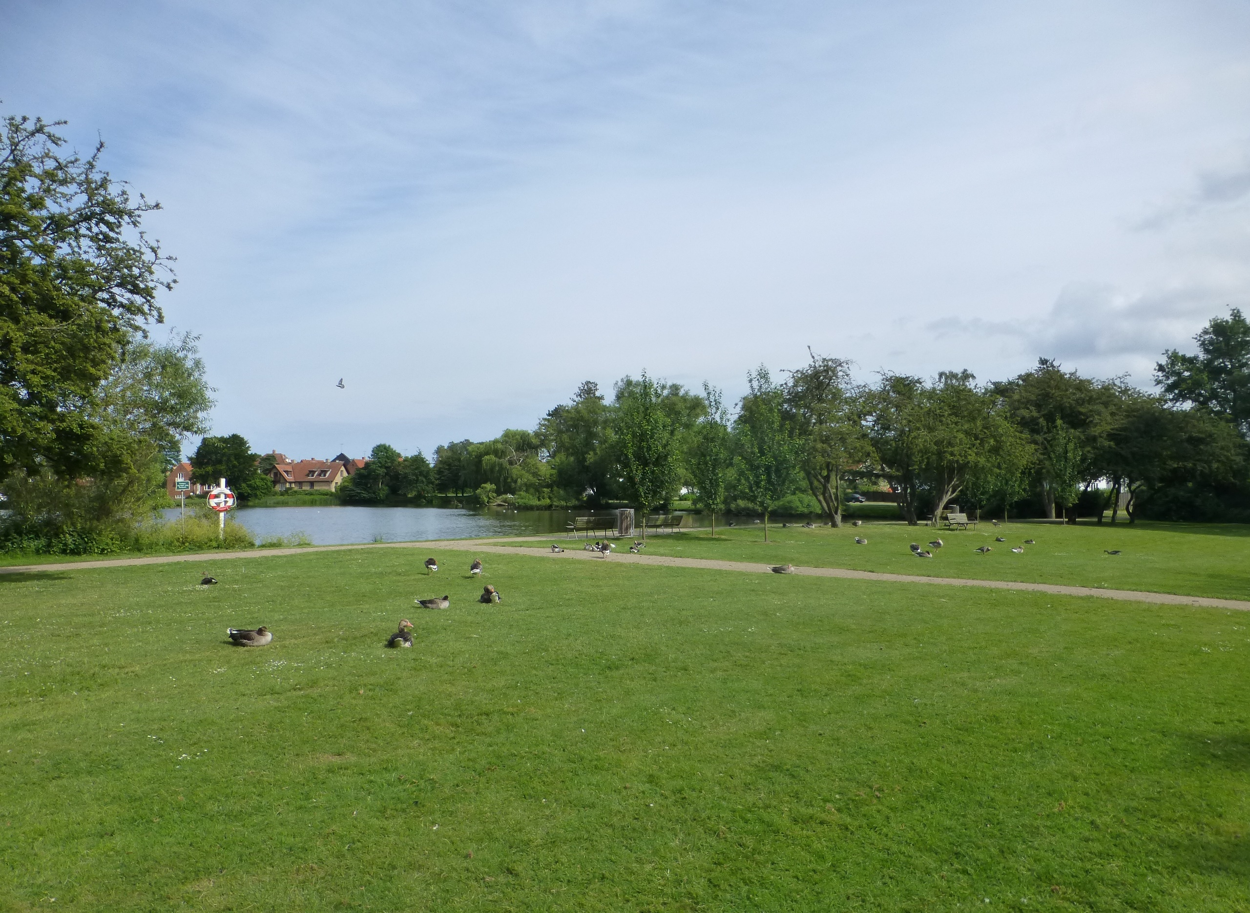 Emdrup Søpark at Emdrup Sø in Østerbro in Copenhagen.